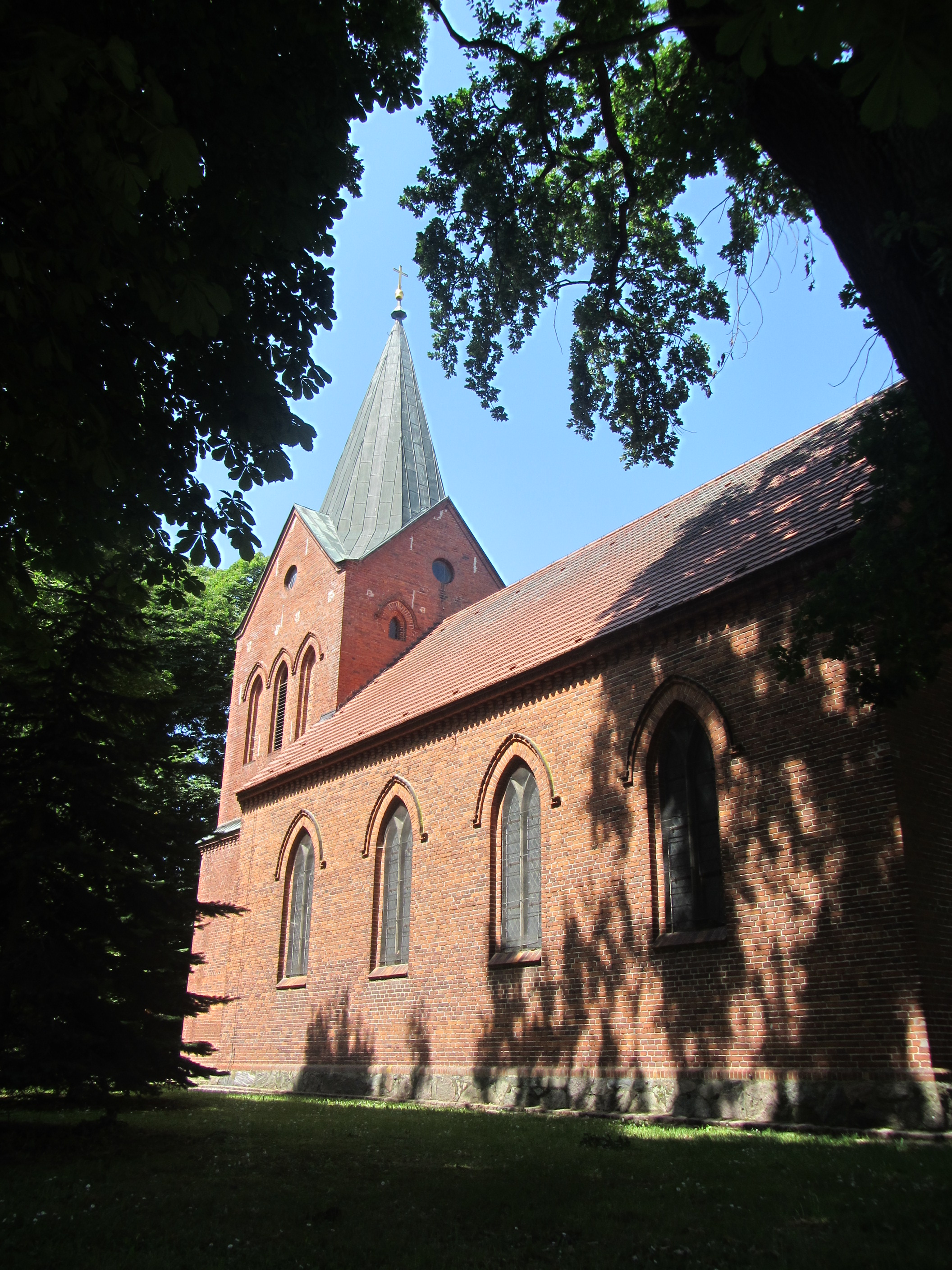 Church in Stolpe auf Usedom, district Vorpommern-Greifswald, Mecklenburg-Vorpommern, Germany